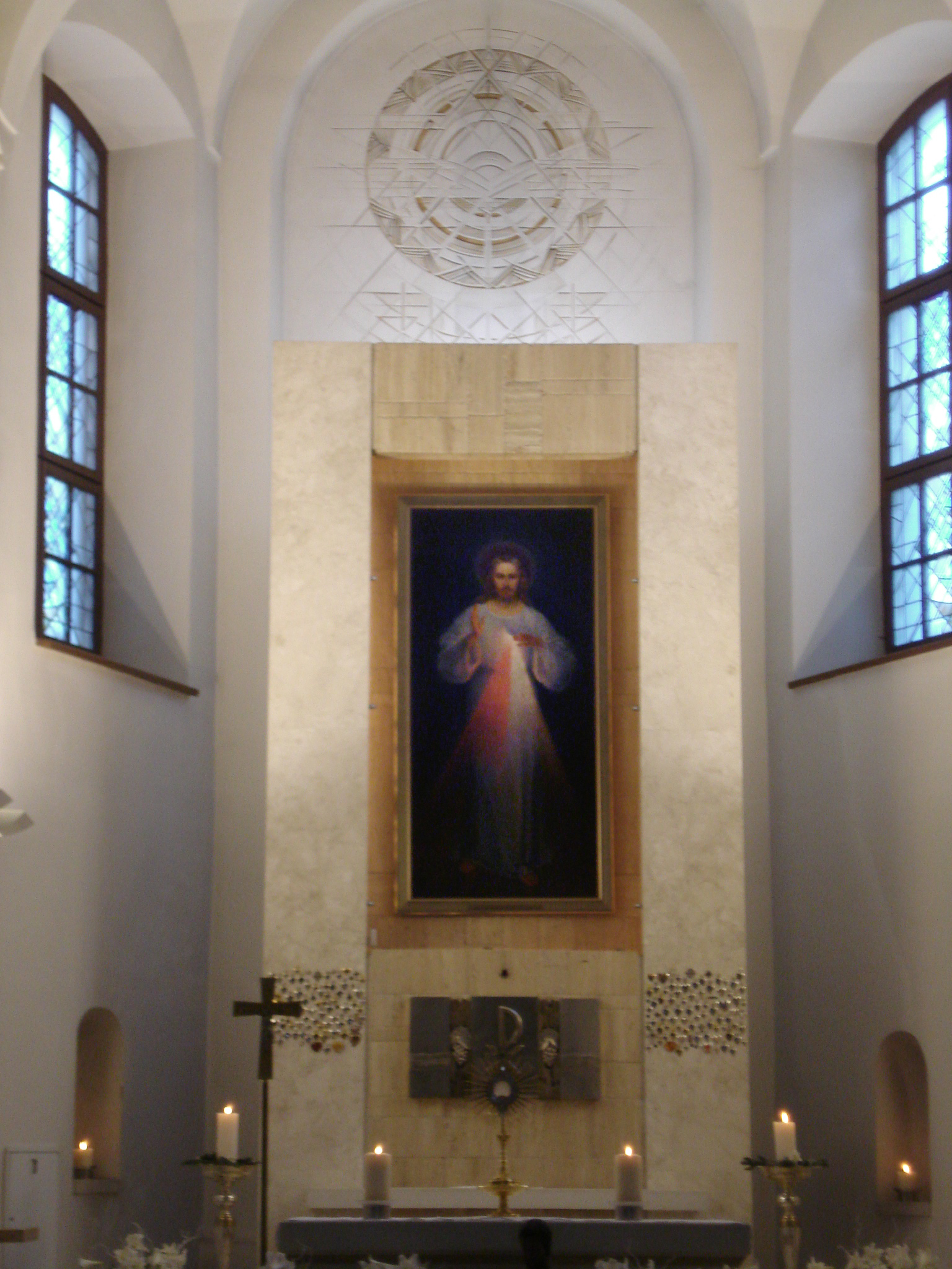 Painting "Divine Mercy" (obraz "Jezu ufam Tobie") in the Divine Mercy Sanctuary in Vilnius (Dievo Gailestingumo šventovė). Dominikonų g. 12